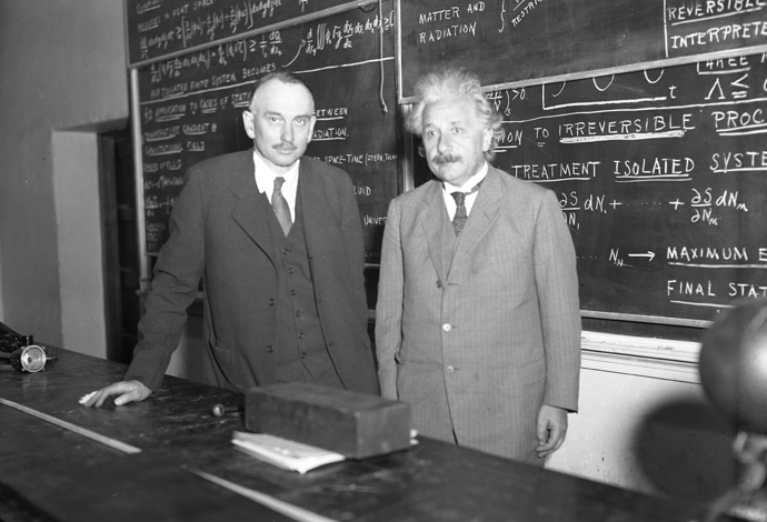 Richard C. Tolman and Albert Einstein standing in front of blackboard at California Institute of Technology in 1932. Handwriting on negative states "Dr. Richard Tolman & Dr. Einstein"